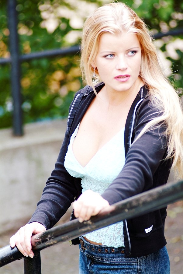 Czech adult model and actress Lea De Mae.